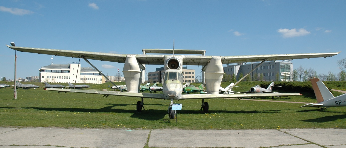 WSK-Mielec M-15 Belphegor Polish jet agricultural aircraft, displayed at the Museum of Polish Aviation, Cracow